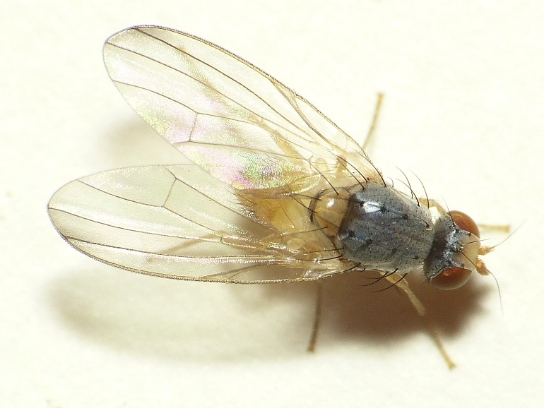 Palloptera ustulata, location: The Netherlands - Rhenen - Blauwe Kamer - Gelderland